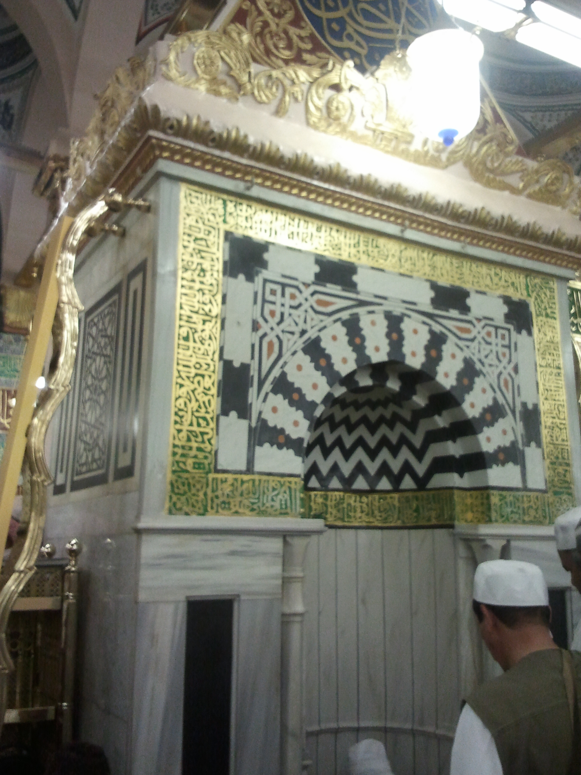 Mihrab Sulaimani at al-Masjid al-Nabawi